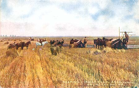 Reaping Indian Head. Assa NWT 190